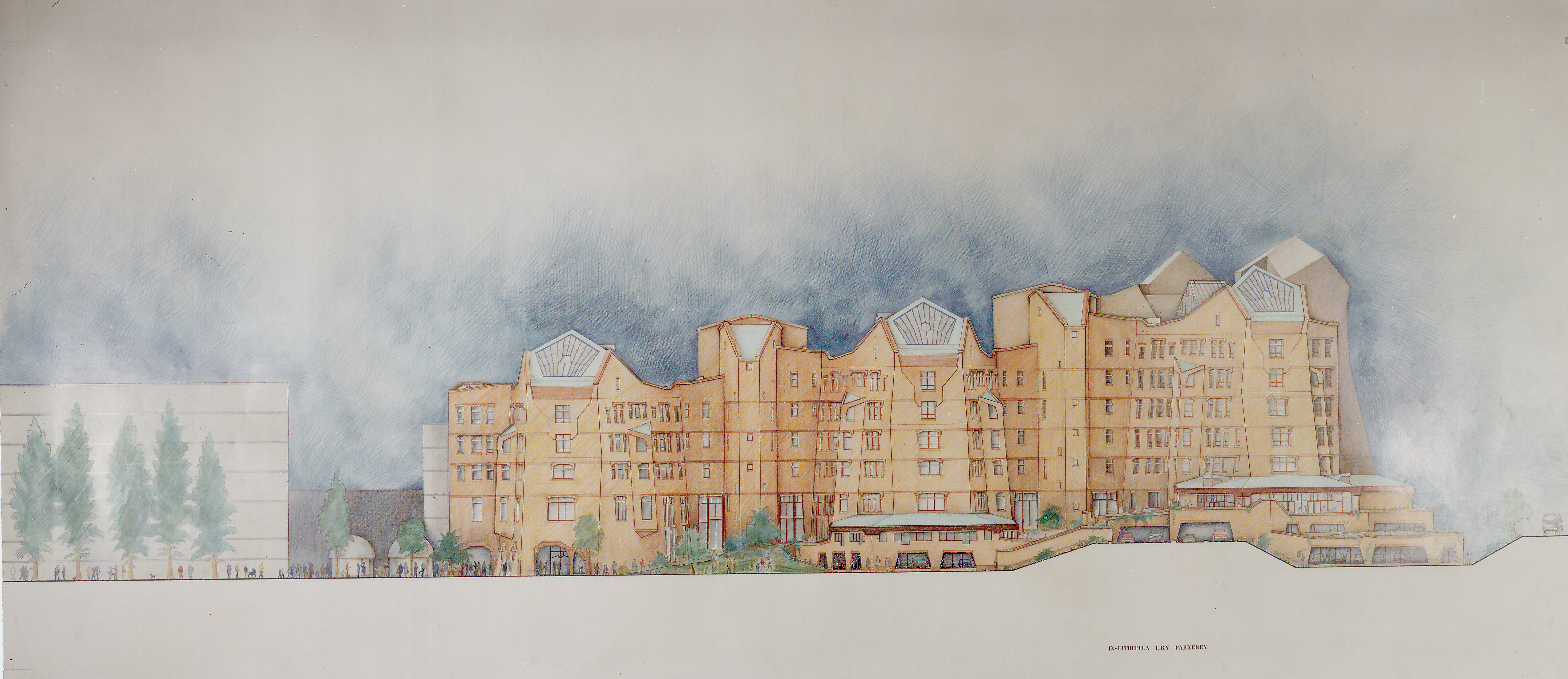 Design drawing of southwest facade of NMB Headoffice, now ING, Amsterdam.